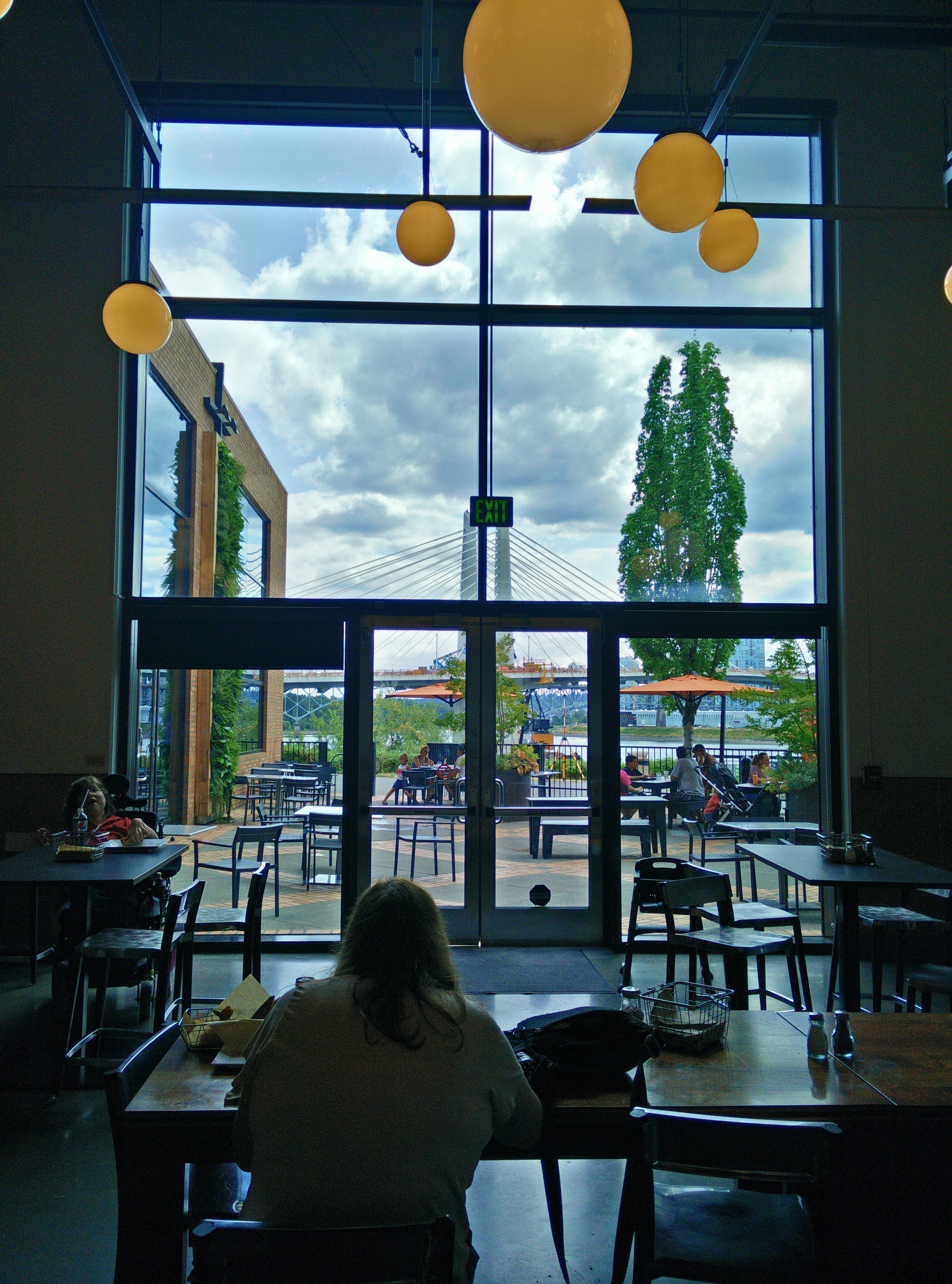 Looking at the Tilikum Crossing from Theory